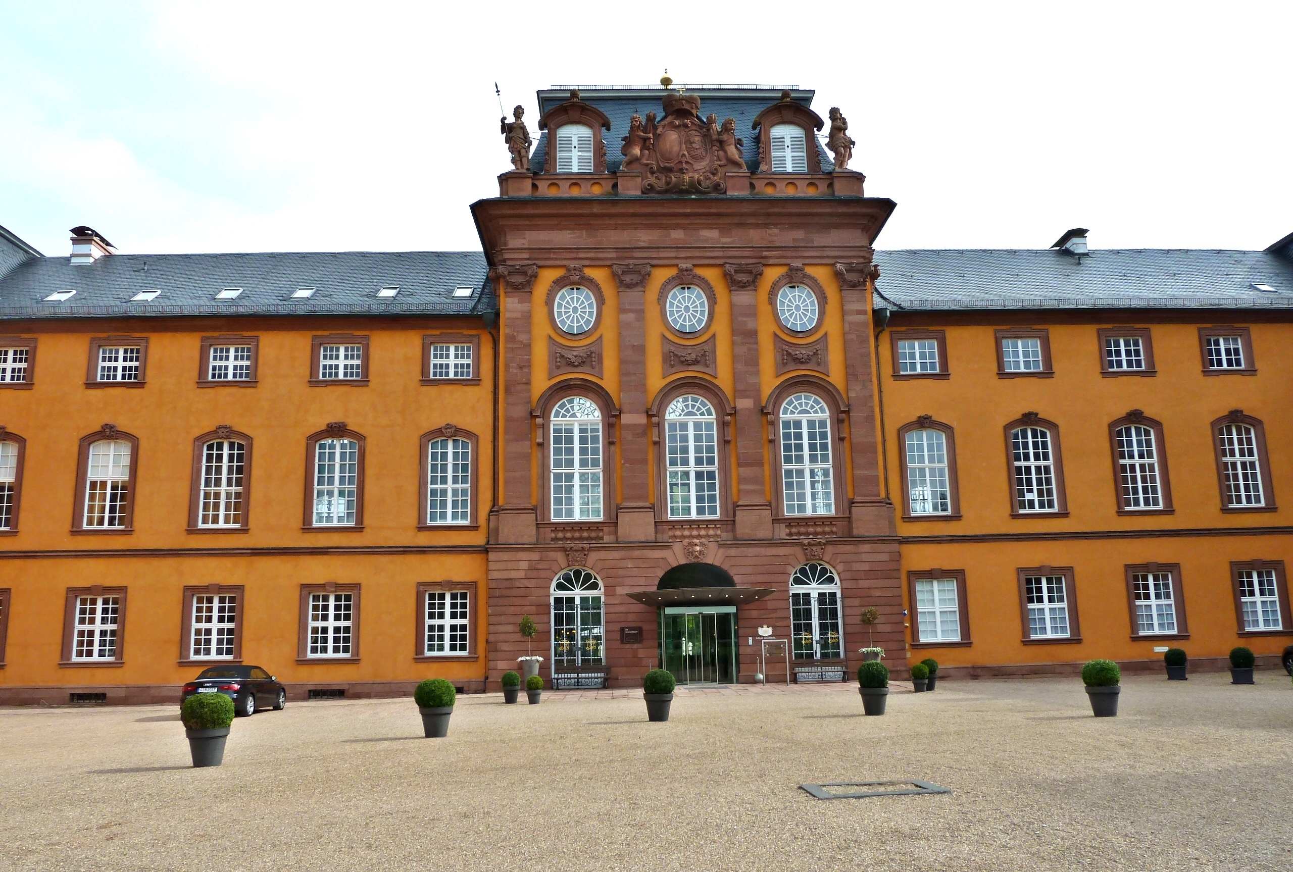 Schloss Löwenstein, Kleinheubach, Mittelteil